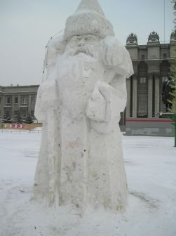 Snow sculpture of Ded Moroz (Russian Santa Claus) in Samara